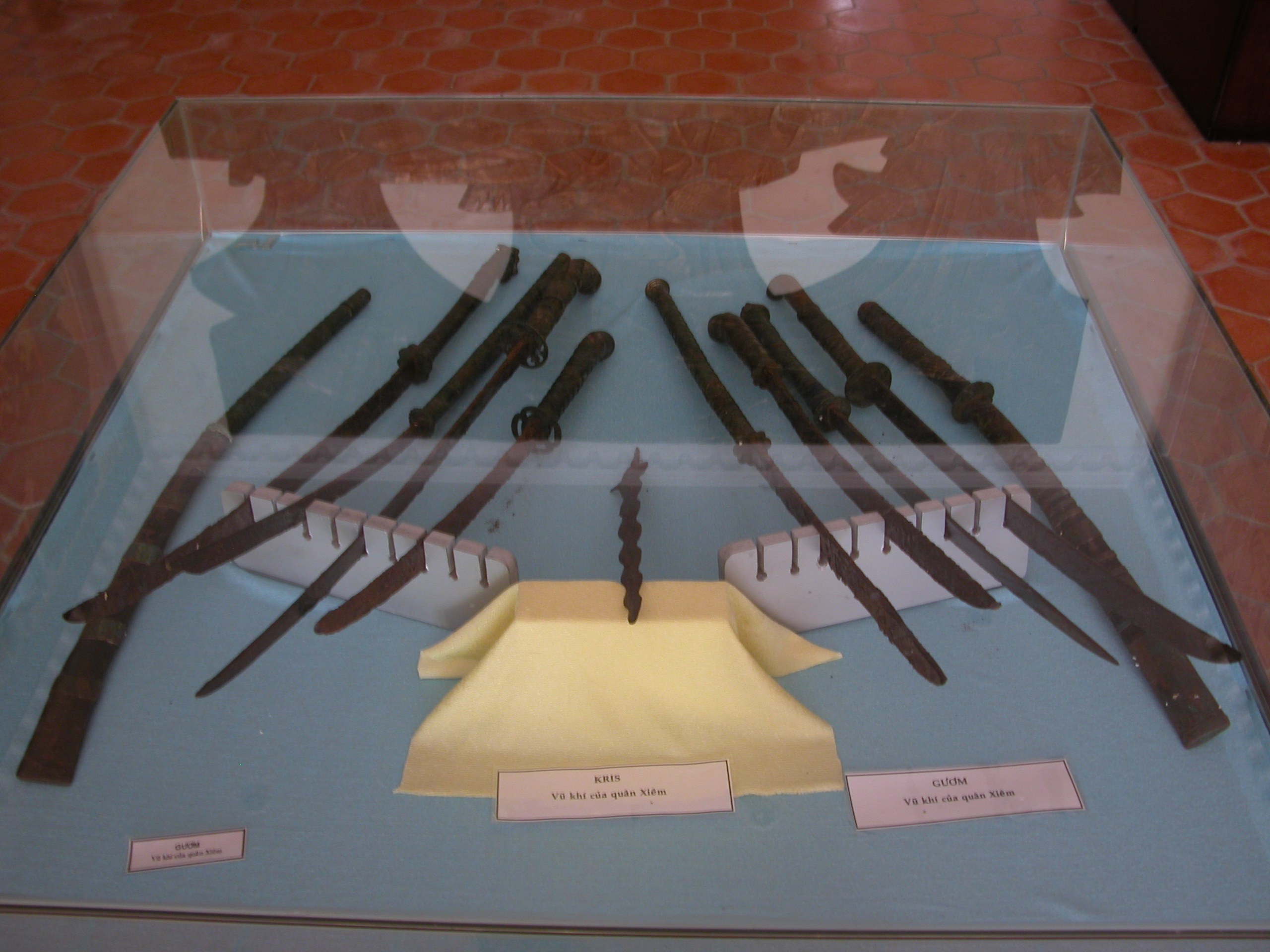 Weapon of Siamese force, Battle of Rạch Gầm-Xoài Mút